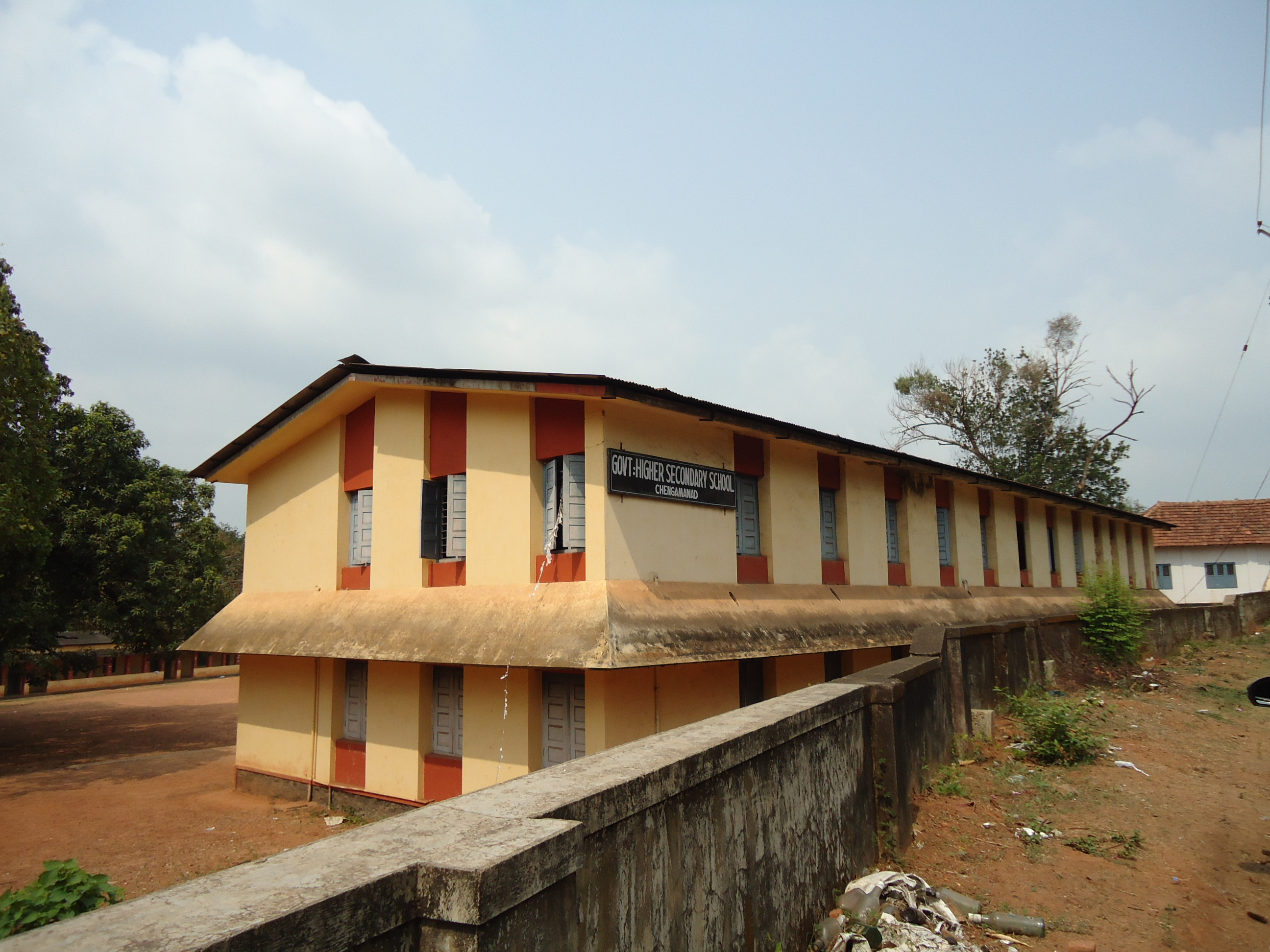 Govt Higher Secondary School Chengamanadu